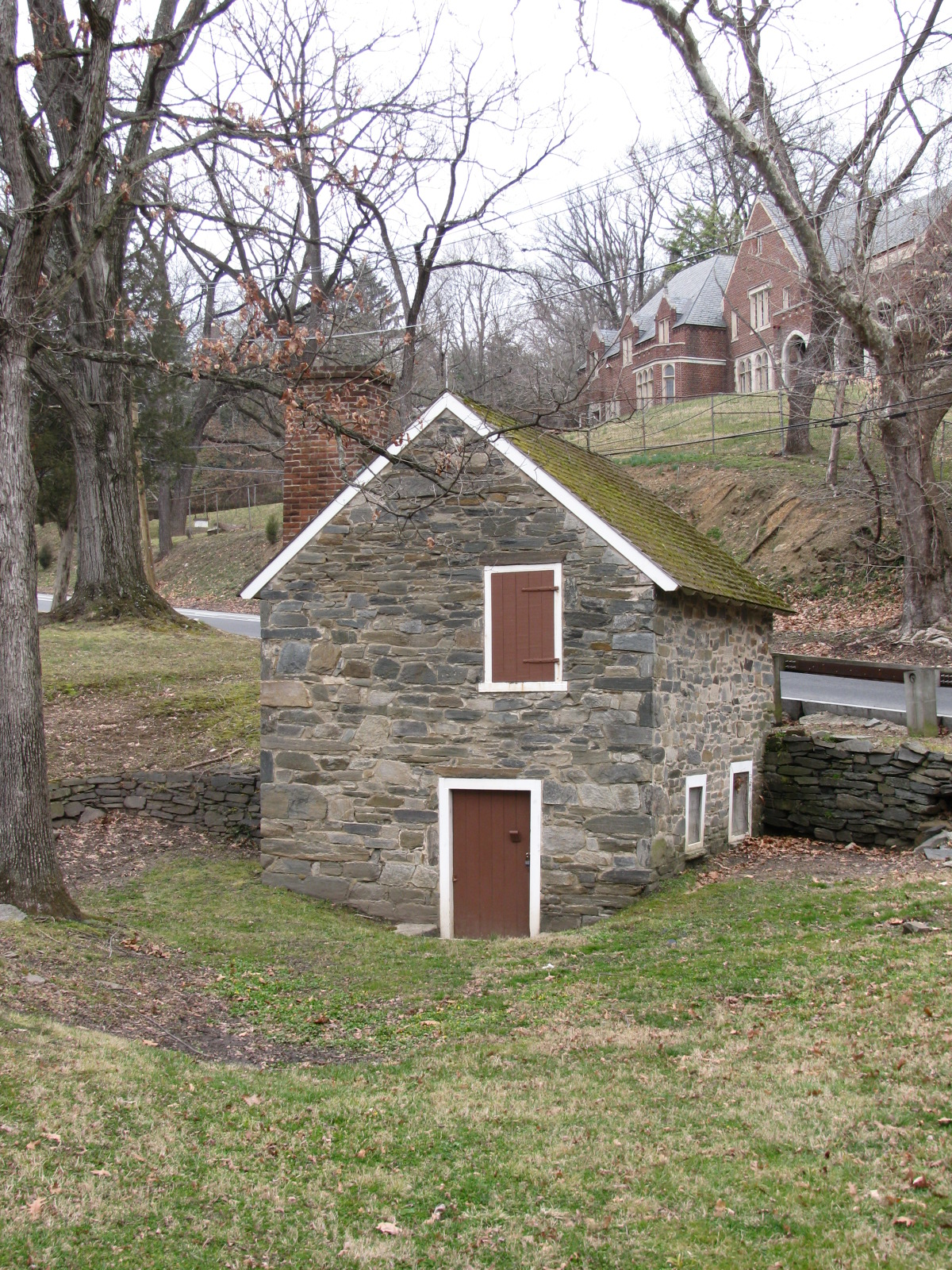 The Pierce Springhouse and Barn (now known as the Rock Creek Gallery) located at 2401 Tilden Street, NW in the Forest Hills neighborhood of Washington, D.C. The vernacular building was constructed by Isaac Pierce in 1820 and is now owned by the National Park Service. It's listed on the National Register of Historic Places and is a contributing property to the Rock Creek Park Historic District.